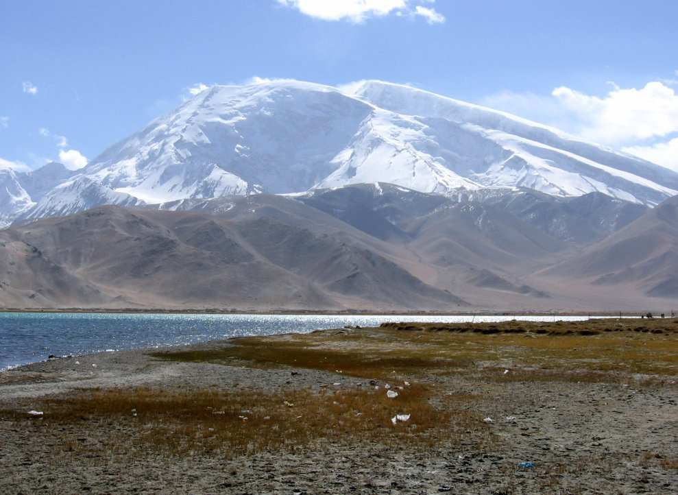 Mt. Muztagh Ata in Karakul lake, close to Karakoram Highway in Xinjiang province (China).